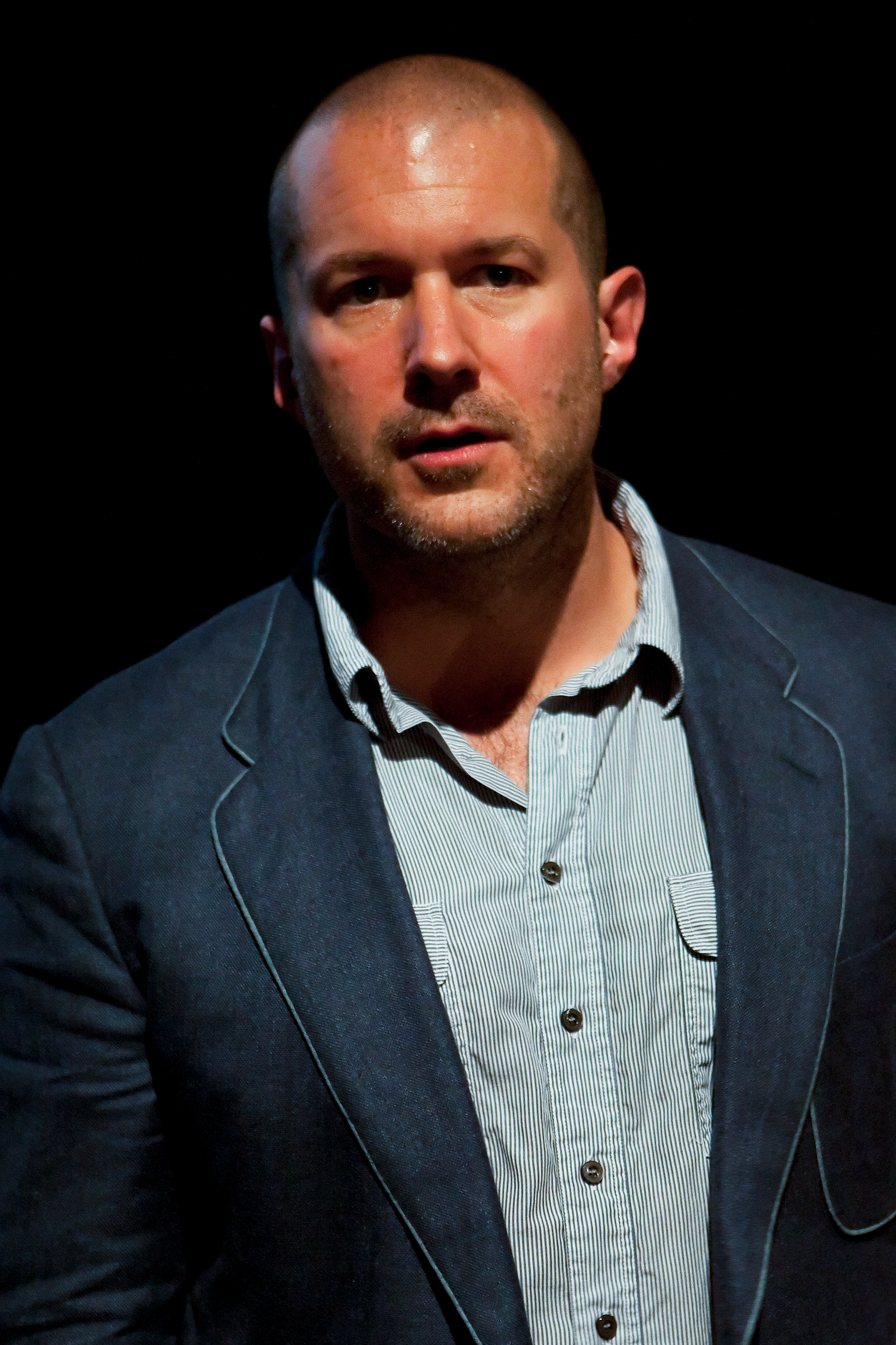 Taken at the London premiere of Gary Hustwit's documentary "Objectified"